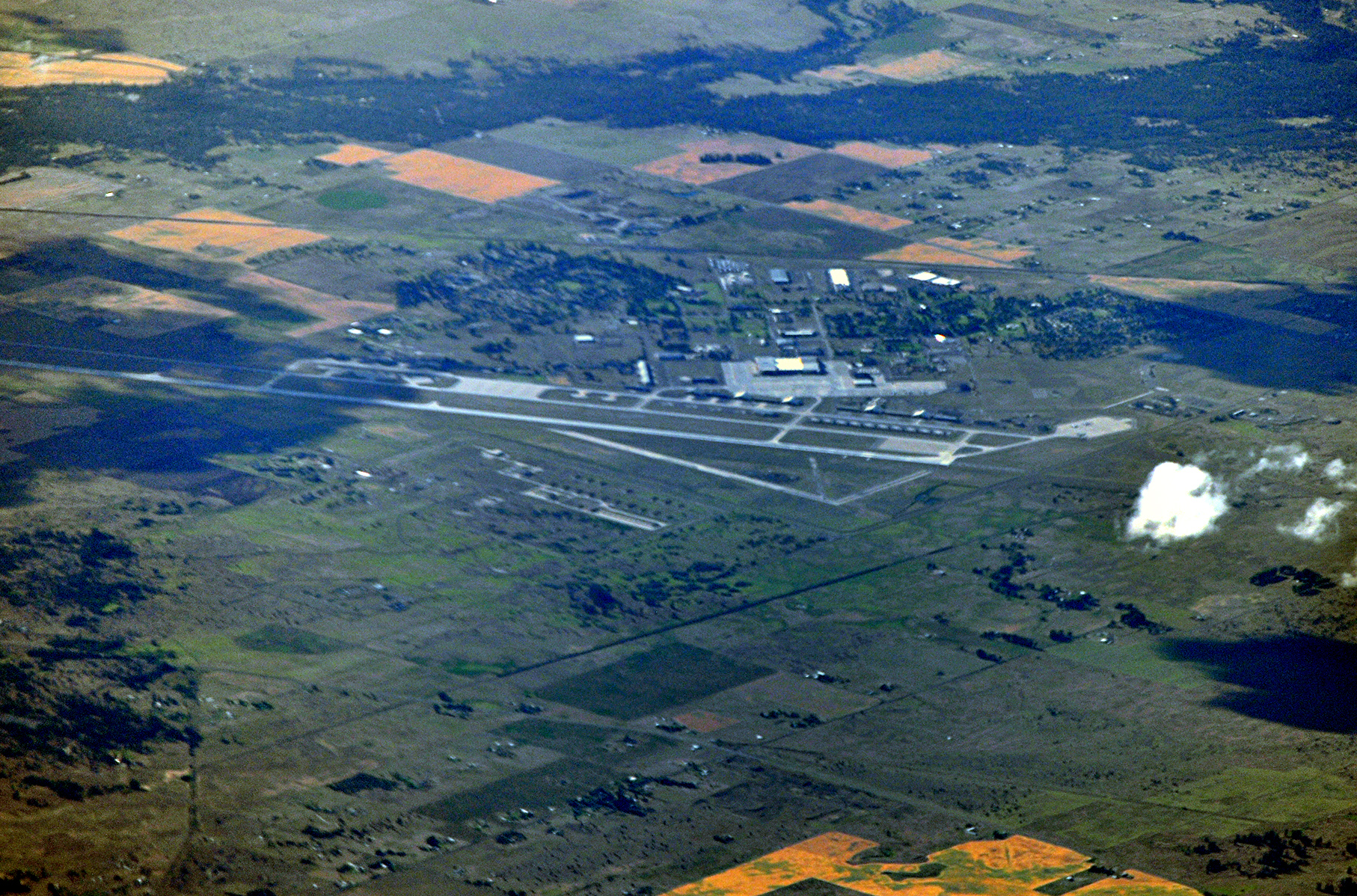 Aerial view of Fairchild Air Force Base, Spokane County, Washington, U.S.